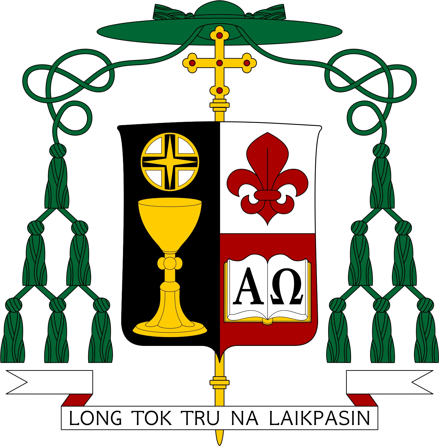 Personal coat of arms of Dariusz Kałuża MSF, bishop of Goroka